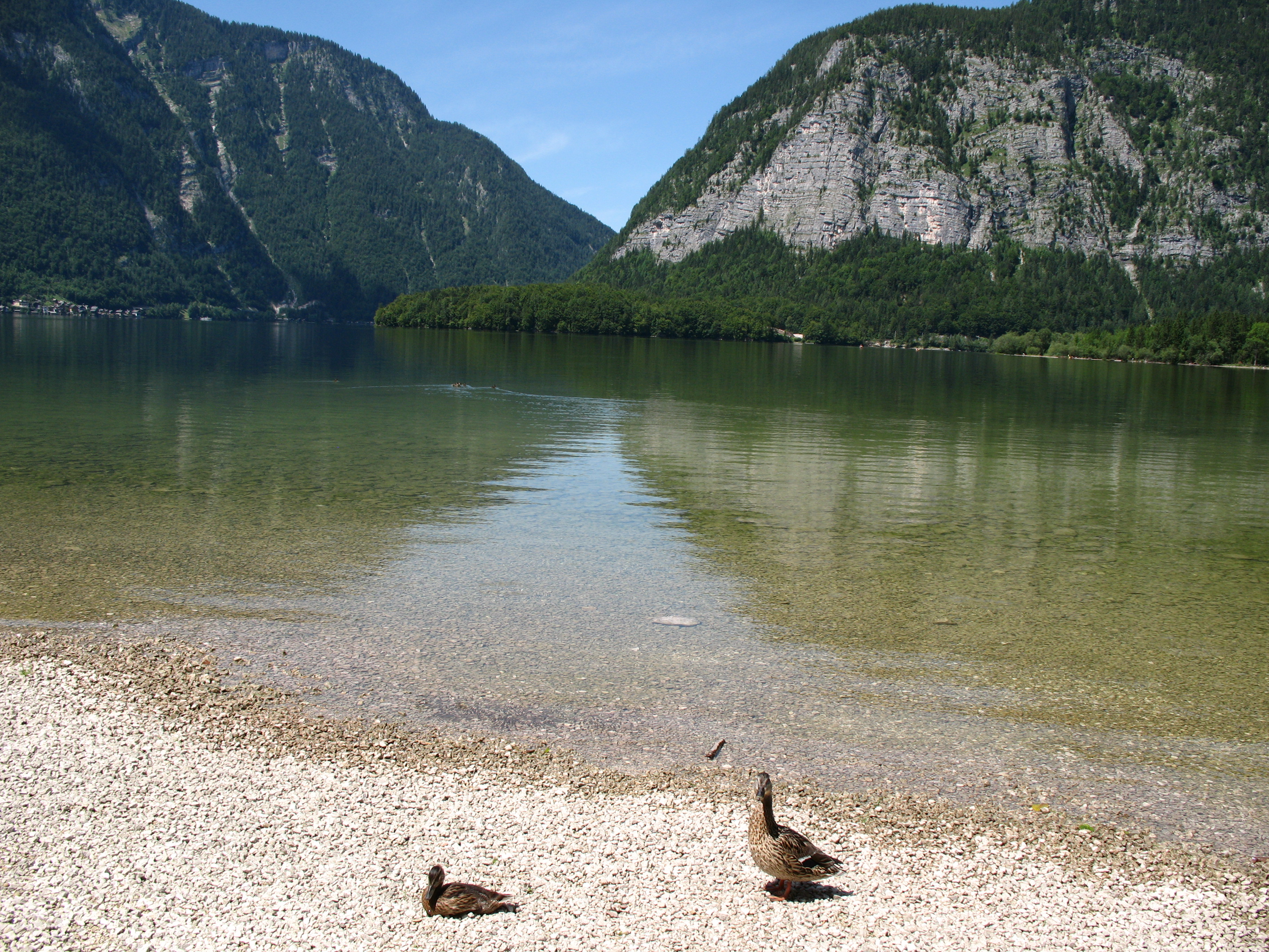 Hallstatt Lake, Hallstatt, Austria